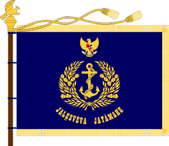 TNI-AL flag